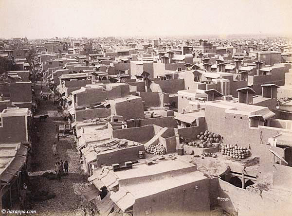 Hyderabad - Scinde by Fred Bremner, Quetta/Karachi - though the image's watermark says it is copyrighted, it is not valid in Pakistan laws because of the given tag below.